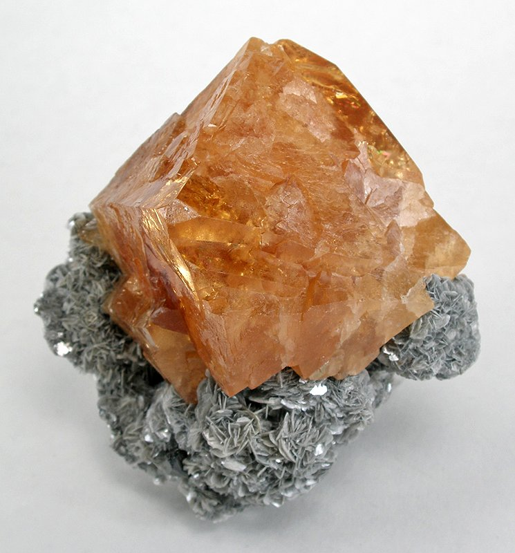 Muscovite, Scheelite Locality: Mt Xuebaoding, Pingwu County, Mianyang Prefecture, Sichuan Province, China (Locality at ) Size: cabinet, 10.5 x 9.6 x 9.6 cm Scheelite on Muscovite This is a really outstanding piece because it has excellent symmetry, good color, high lustre, and most importantly sits upright on just the right amount of attractive crystallized matrix with all display terminations exposed and showing. It measures 8 x 7 x 7 cm. Usually more than one termination is buried in the matrix. Here, all but the bottom are free of the matrix. The tips are very gemmy, not just translucent, with exceptional lustre to them. From finds made in the 1990s. Ex. Dr. Steve Smale Collection.